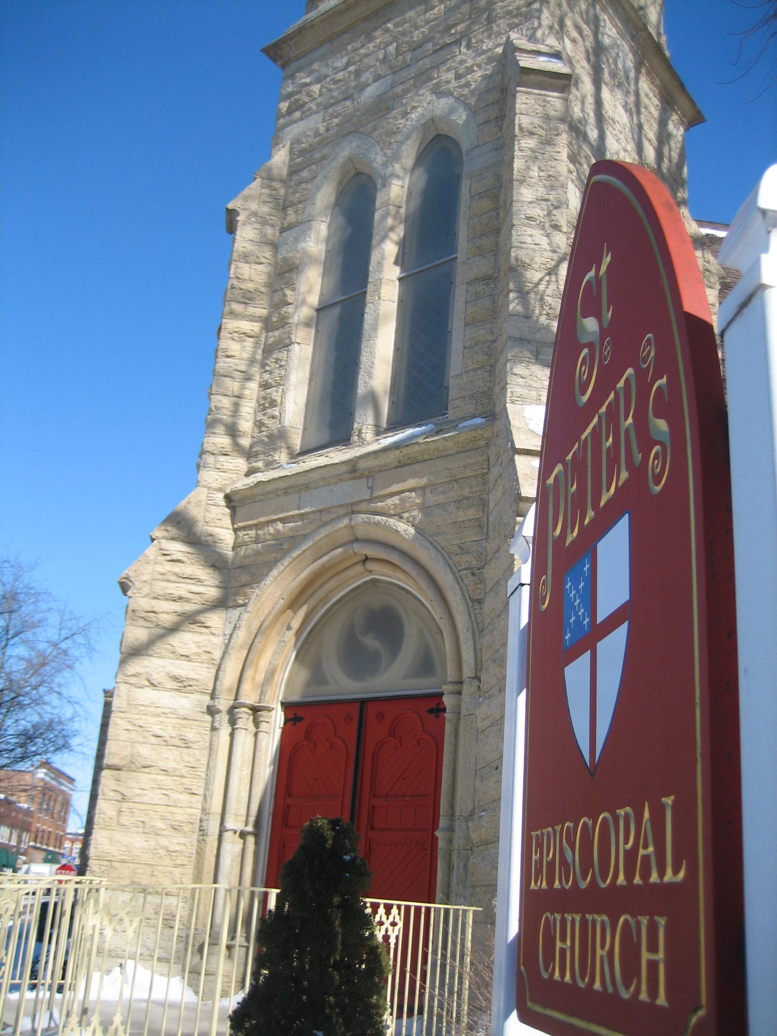 206 Somonauk St., St. Peter's Episcopal Church, Sycamore, Illinois. Sycamore Historic District, National Register of Historic Places.